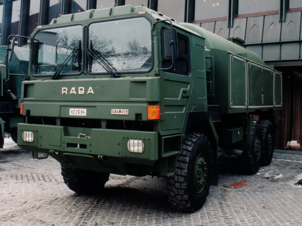 Type Rába H25 Hungarian military vehicle